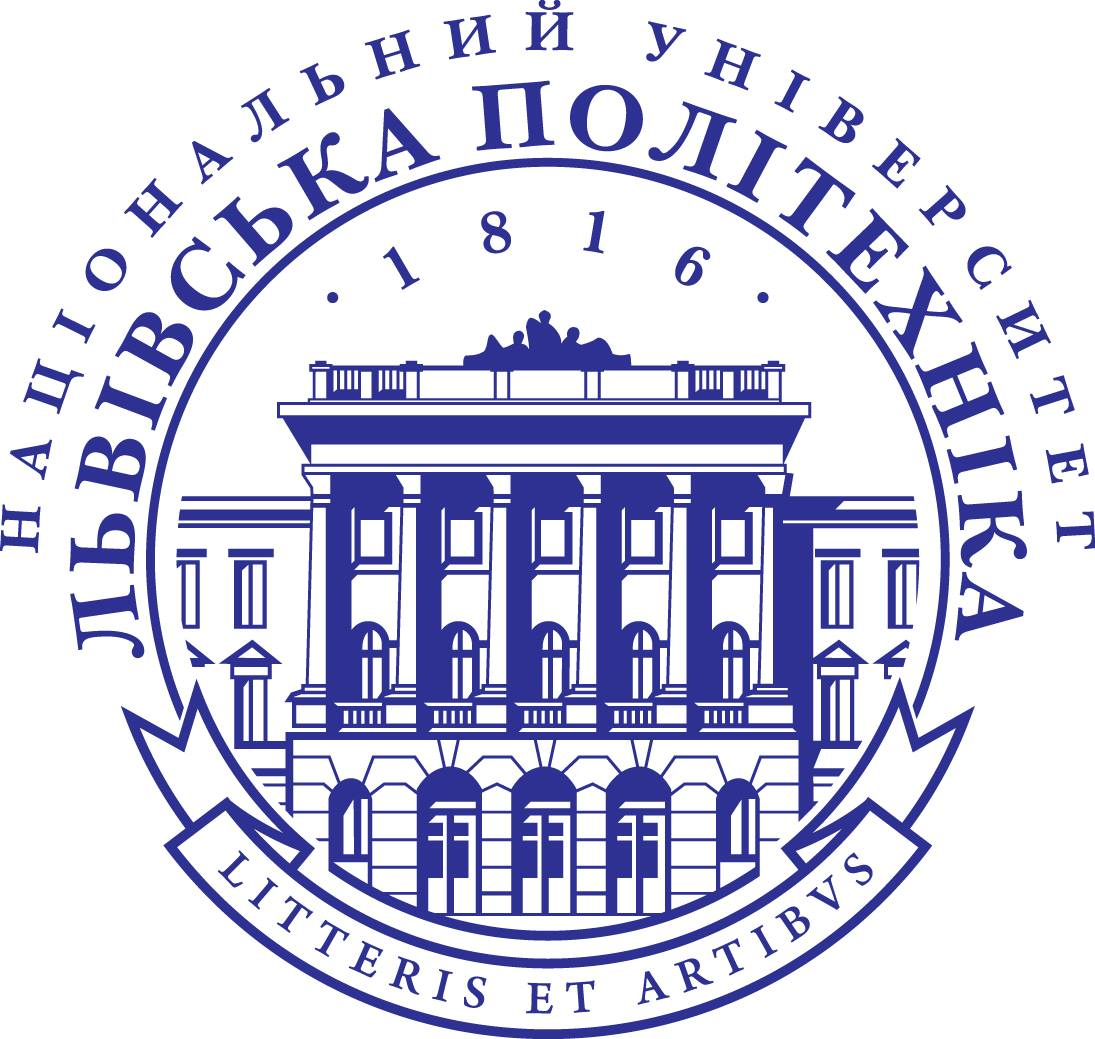 logo Lviv Polytechnic National University